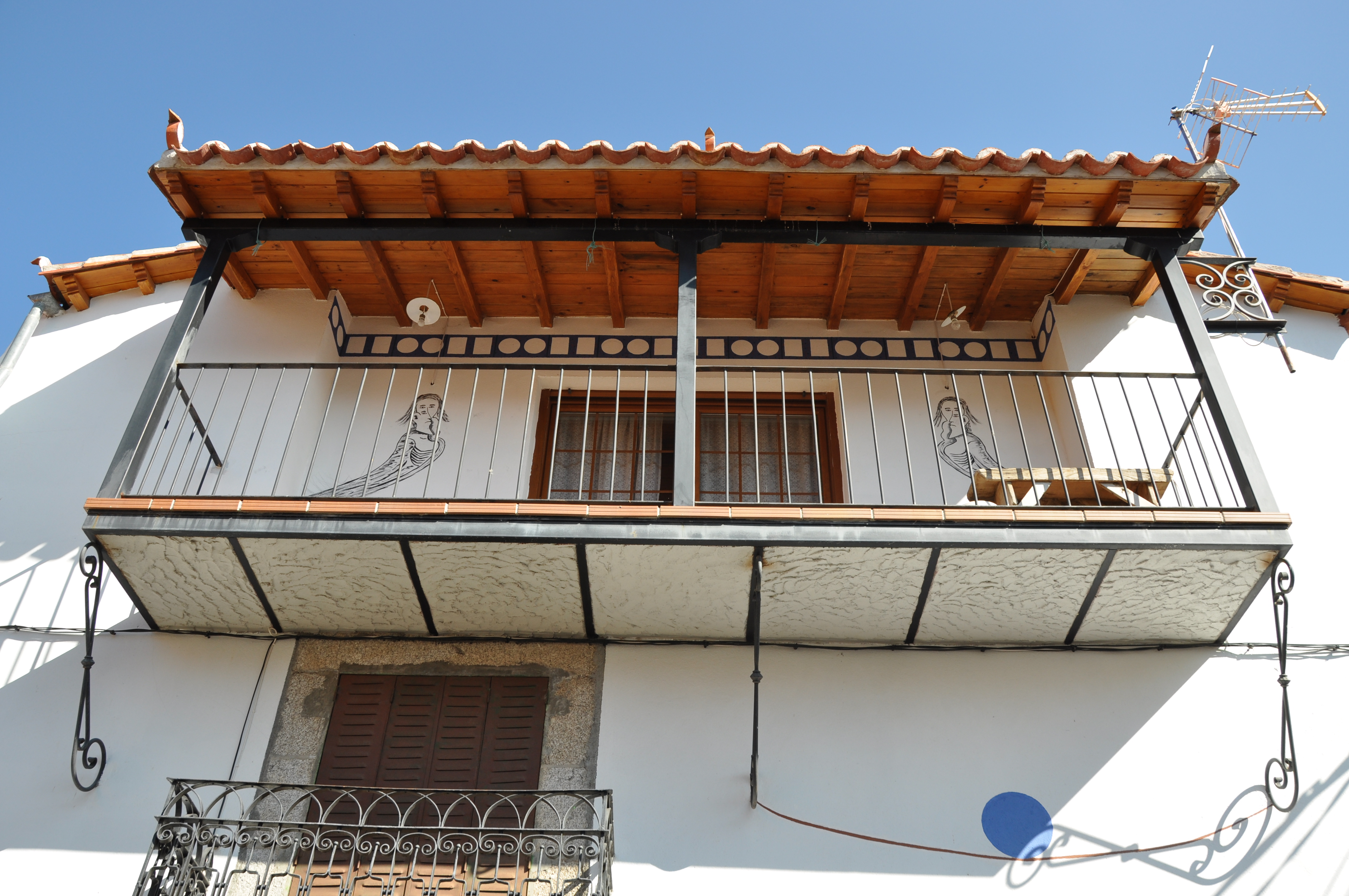 Detail of vernacular architecture in Becedas, Ávila, Spain